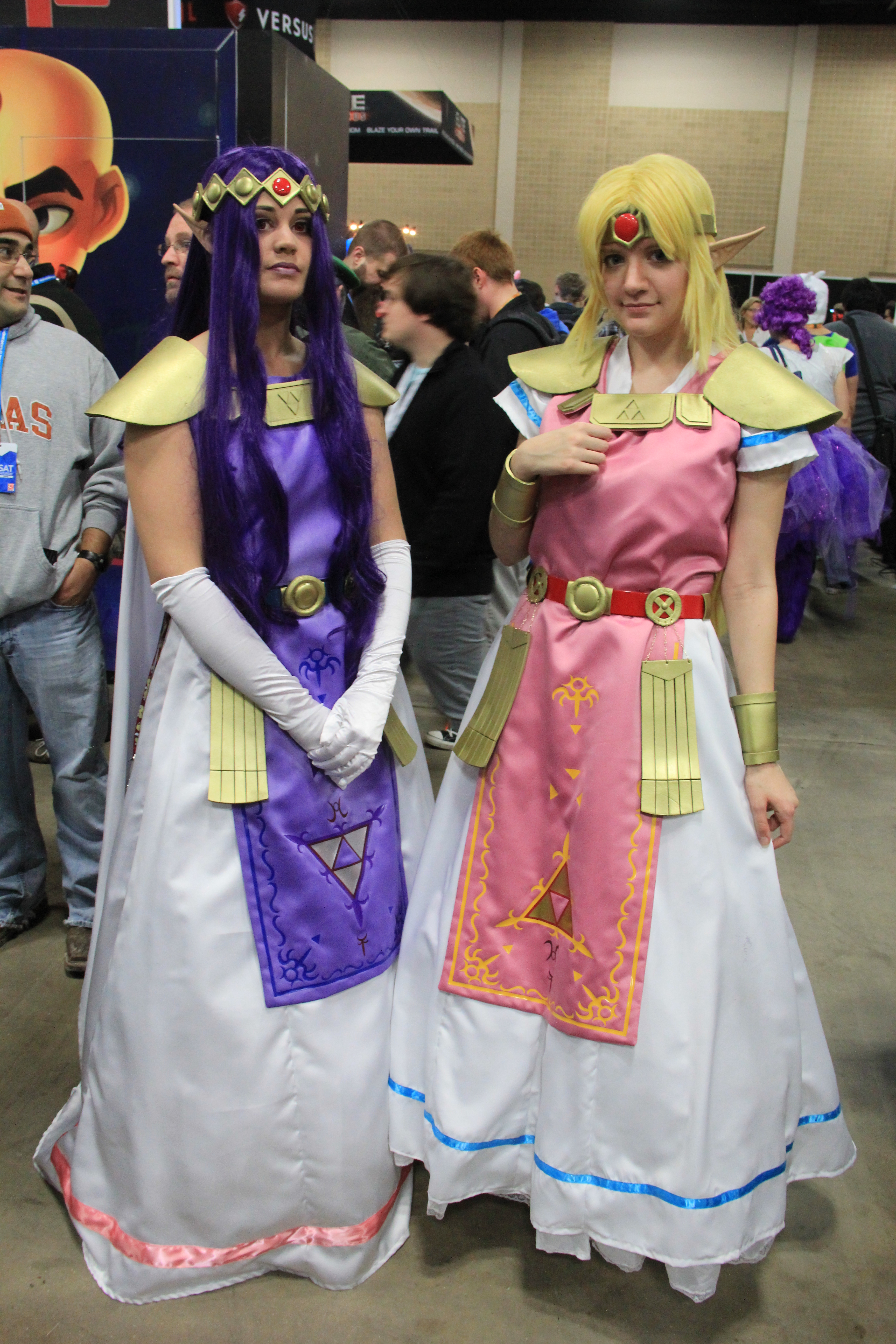 Zelda & Hilda Taken on day 2 or 3 of PAX South 2015.